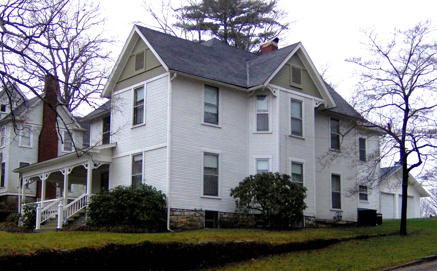 The Williamson Jones House (629 Cumberland Street), also called Lane House, in the Cornstalk Heights Historic District of Harriman, Tennessee, USA. This house was built by A. T. Waters in 1893. The Lane family occupied the house 1914-1965.